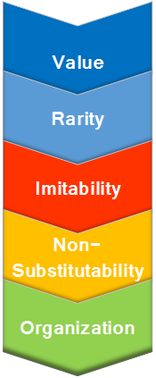 Steps of the VRINO-method for core competency analysis.